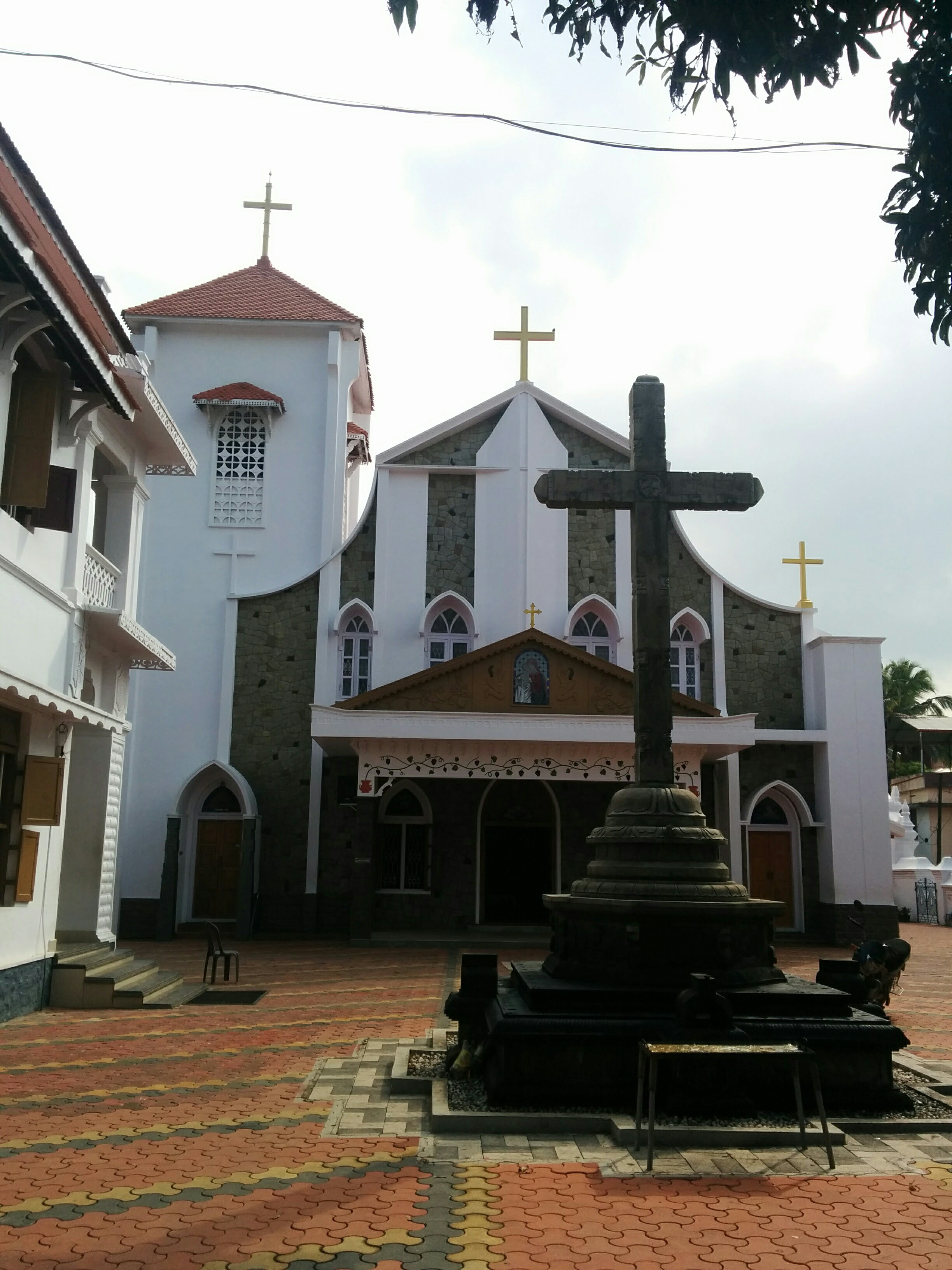 St. Mary’s Orthodox Cathedral, Puthiyakavu well known as ‘Puthiyakavu Palli’ found in the name of patron, Saint Mary (Mother of Jesus Christ). The church was established in AD 943. On 12th March, 1989 church was elevated as “Cathedral” by H.H.Baselius Mar Thoma Mathews I.